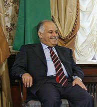 Libyan Prime Minister Al-Baghdadi Ali al-Mahmoudi